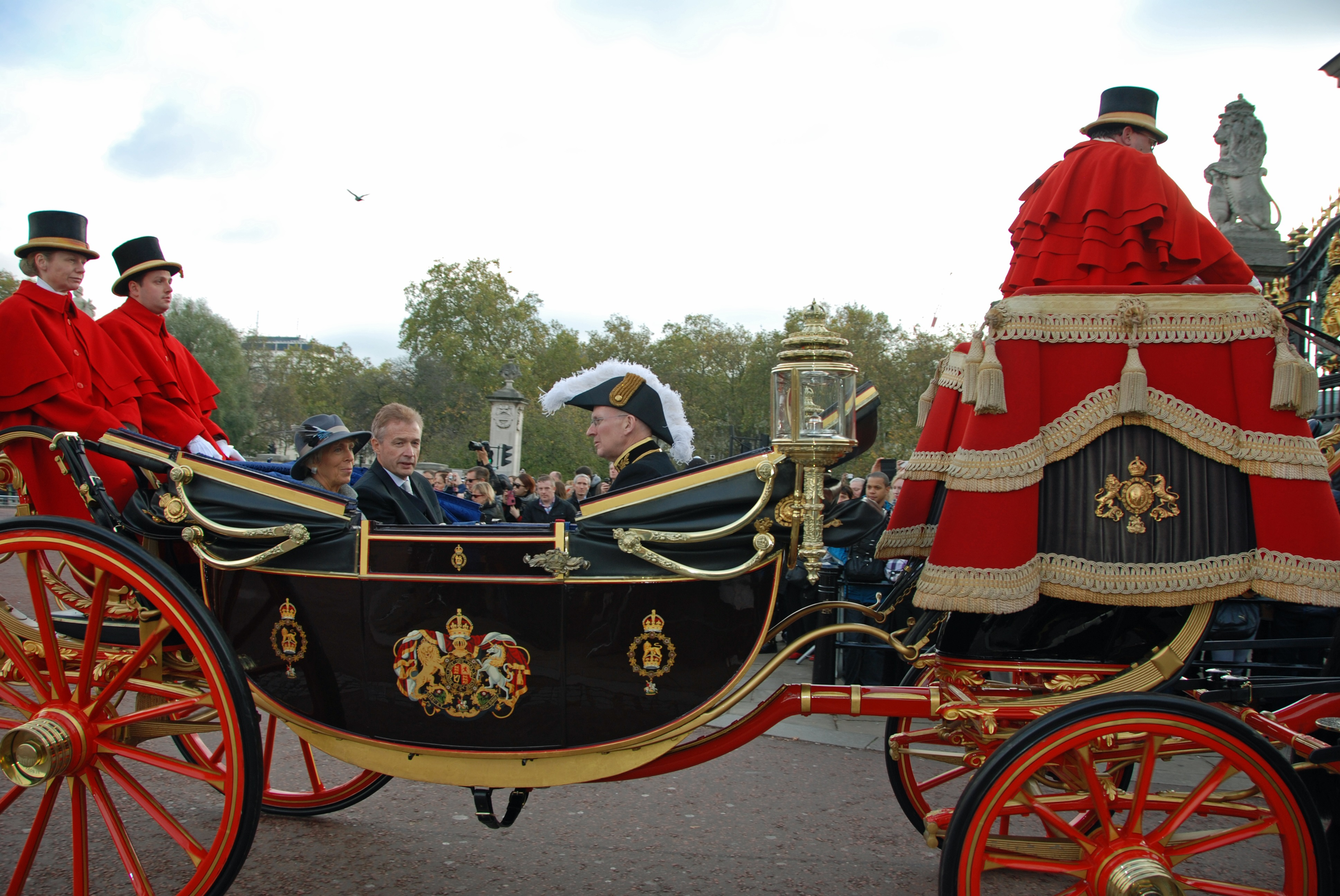 Peter Ammon, Ambassador to the Court of St. James's, Marliese Heimann-Ammon, Peter's wife, and Alistair Harrison, Marshal of the Diplomatic Corps, arrived Buckingham Palace by the State Landaus on November 5, 2014.